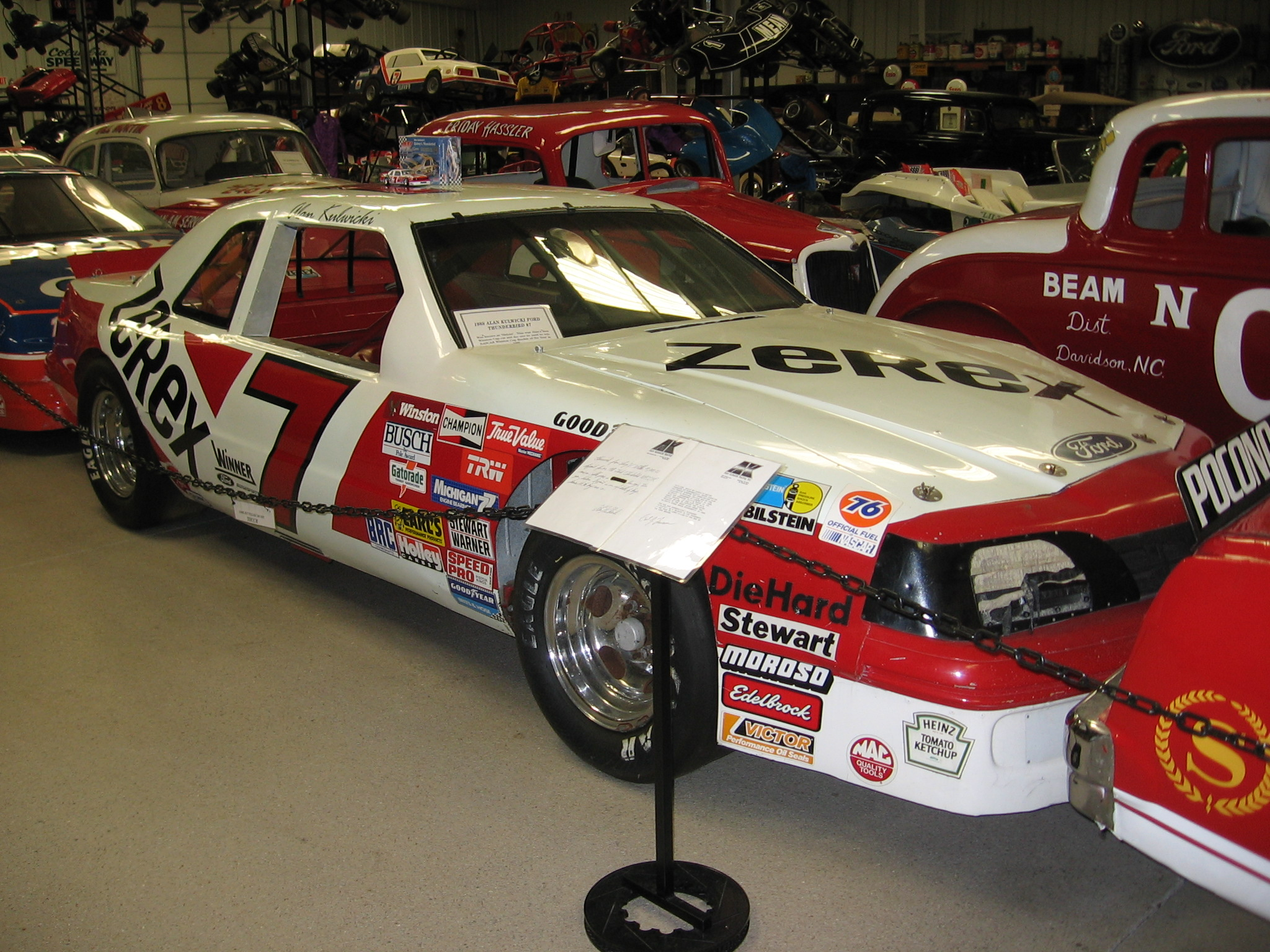 Alan Kulwicki's Zerex Ford Thunderbird at the Memory Lane Museum in Mooresville, North Carolina. The paper on the windshield says its a 1988 car. Additional message from the contributor: The back ground on this car is that it was Alans first winston cup car originally sponsored by hardee's in 1985 for five races. In 1986 with the Quincy's steak house sponsorship it was the main vehicle he drove to the Rookie of the Year title. It was nicknamed "sirloin" because it was so tough! and it fit with the sponsorship.alan kulwicki